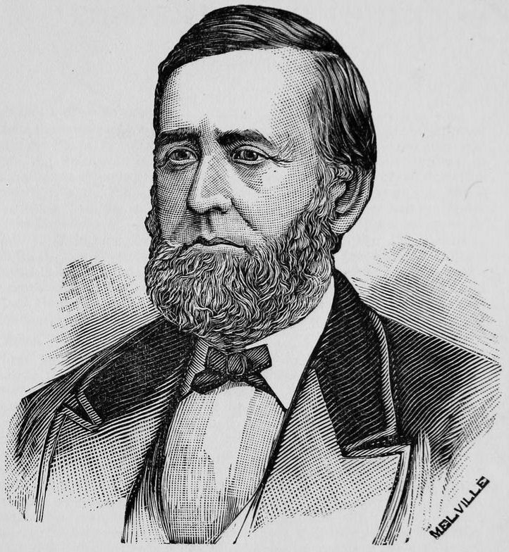 Portrait of Perry Armstrong, Illinois legislator and historian